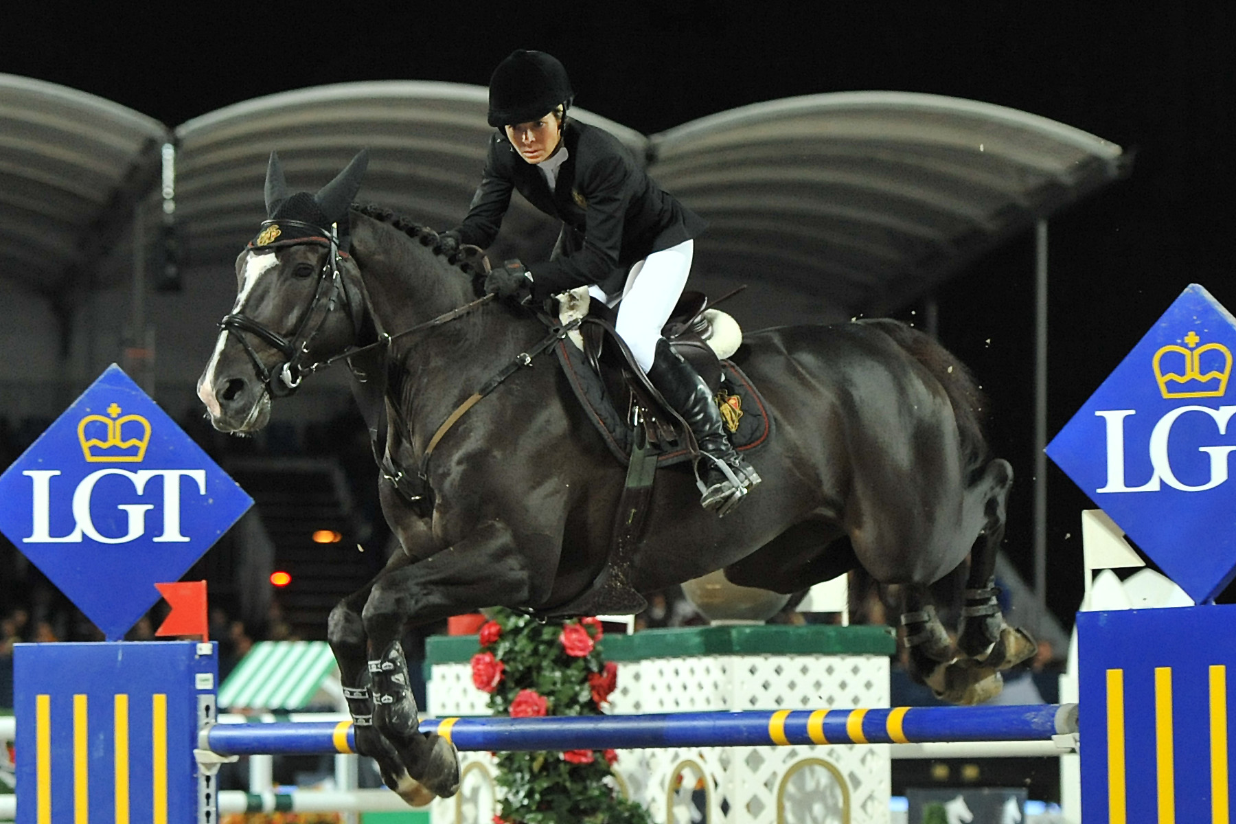 Vienna Masters am 21. September 2013 Longines Global Champions Tour Edwina Tops-Alexander (AUS) auf Ego van Orti